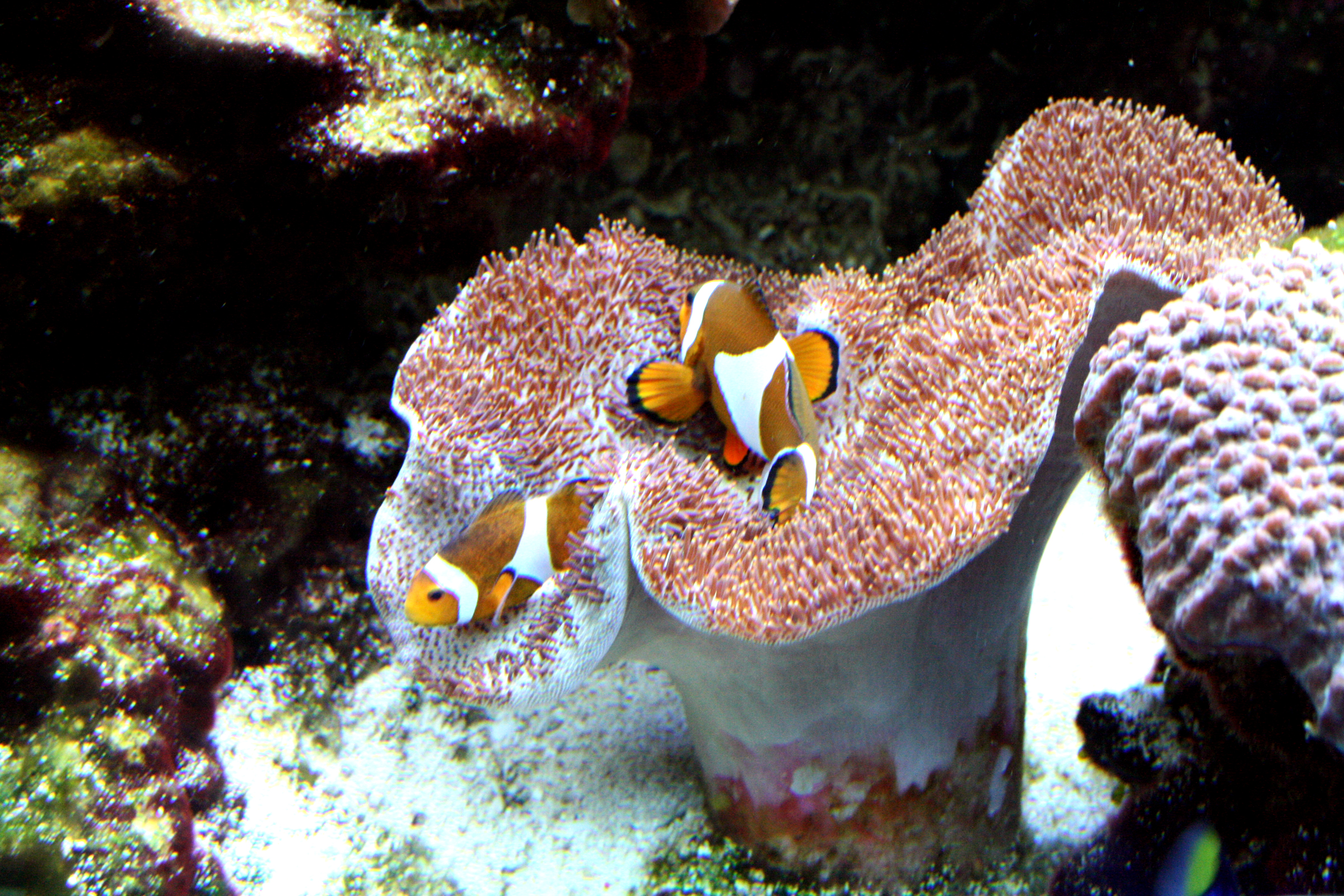 Fish Amphiprion ocellaris on Sarcophython glaucum in Prague sea aquarium, Czech Republic Česky: Ryba klaun očkatý (Amphiprion ocellaris) na laločnici houbovité (Sarcophython glaucum) v pražském mořském akváriu Mořský svět v Holešovicích